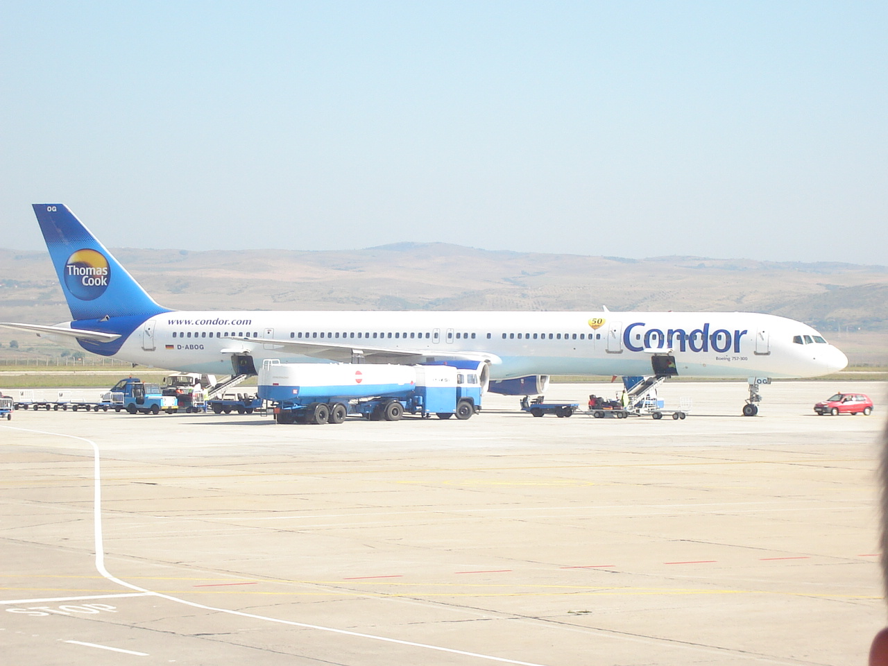 Condor Boeing 757-300 at Burgas Airport